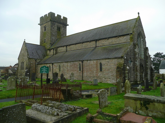 St. Crallo's church, Coychurch A cruciform building with a large nave and central tower. Viewed from the north-west.